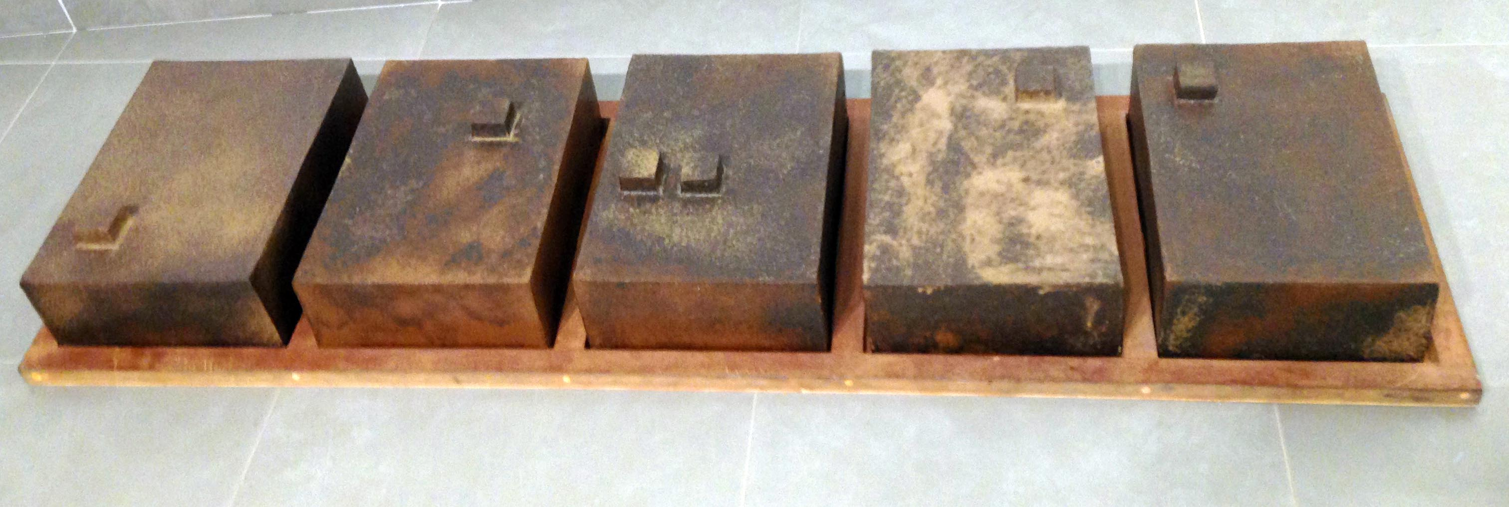 Ceramic art piece made by Maria Carmen Riu De Martín